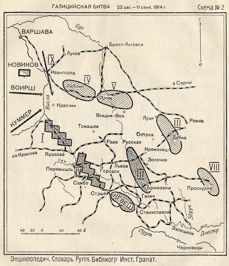 Battle for Galicia. August-September 1914